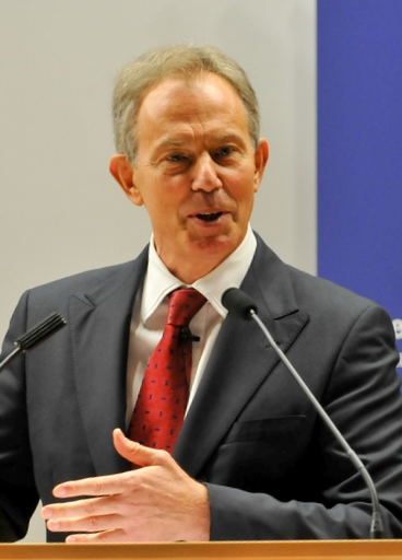 Tony Blair speaking at Policy Network's 'Politics of Climate Change' conference in 2009.